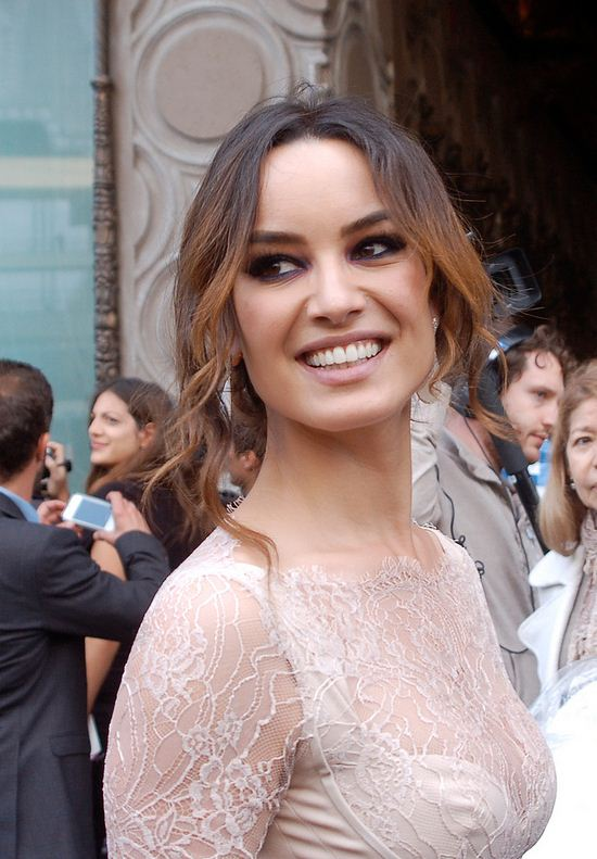 Bérénice Marlohe at a ceremony for Javier Bardem to receive a star on the Hollywood Walk of Fame.